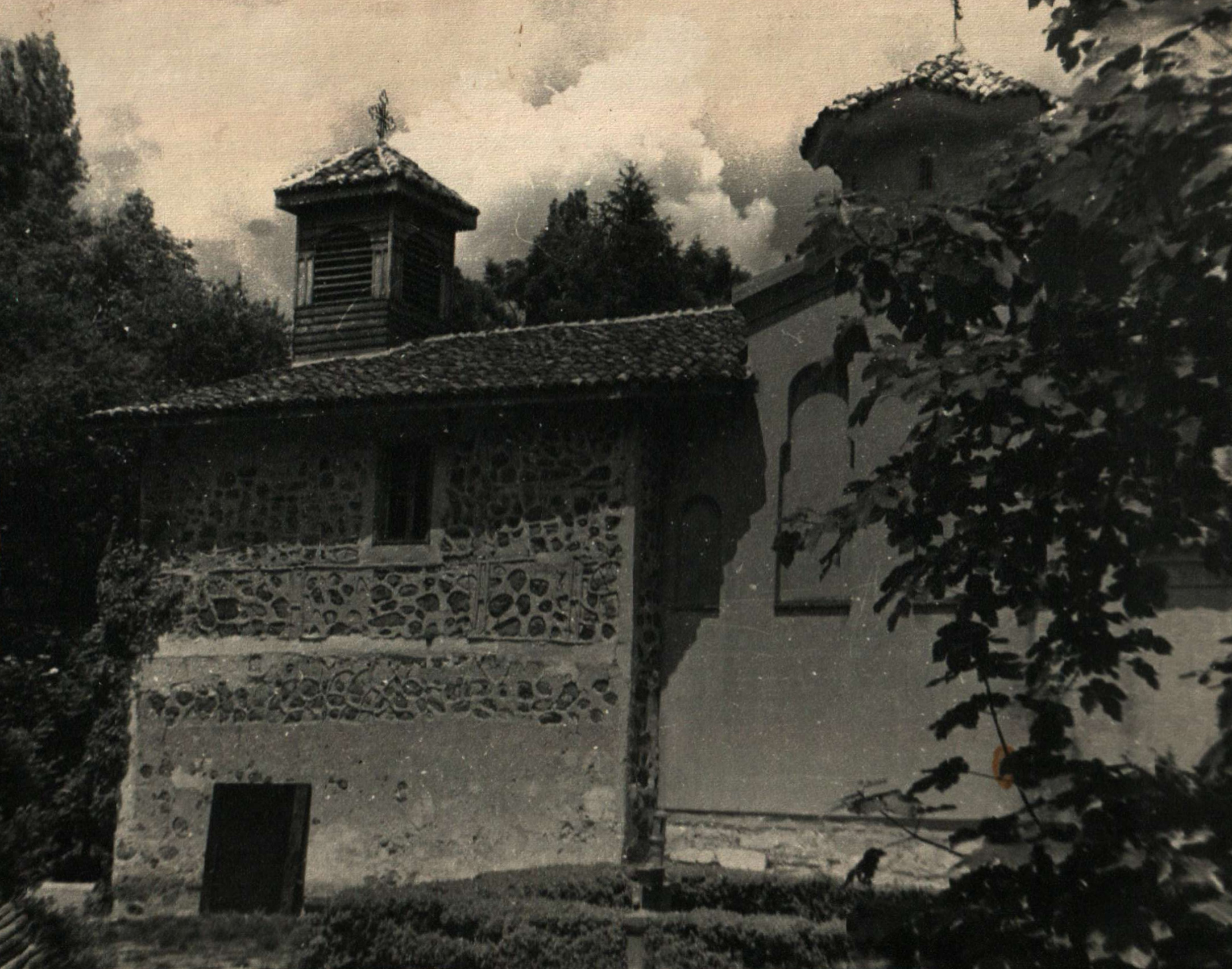 Boyana Church, Bulgaria